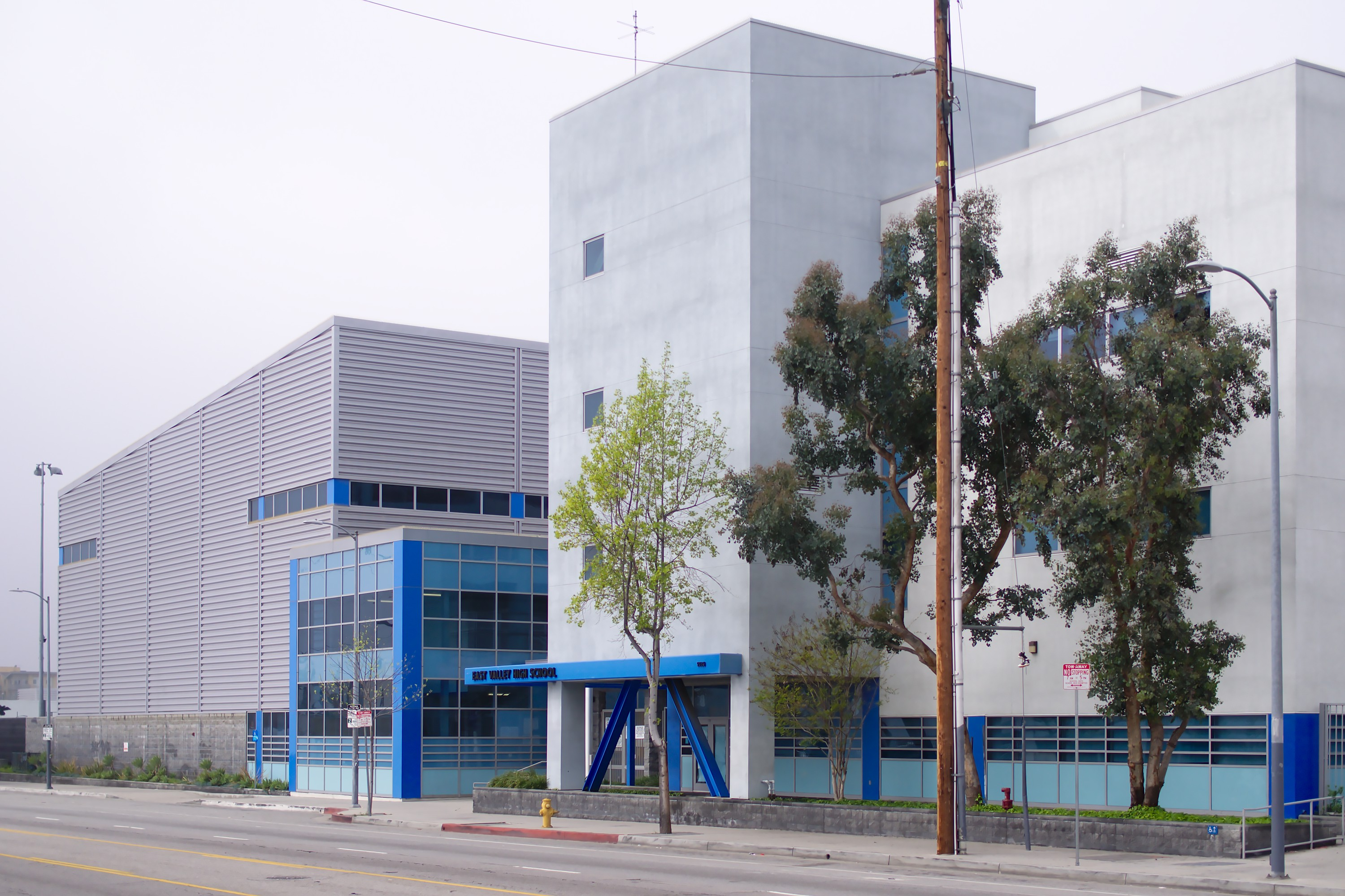 East Valley High School on Vineland Avenue in North Hollywood, Los Angeles. view from the northeast.